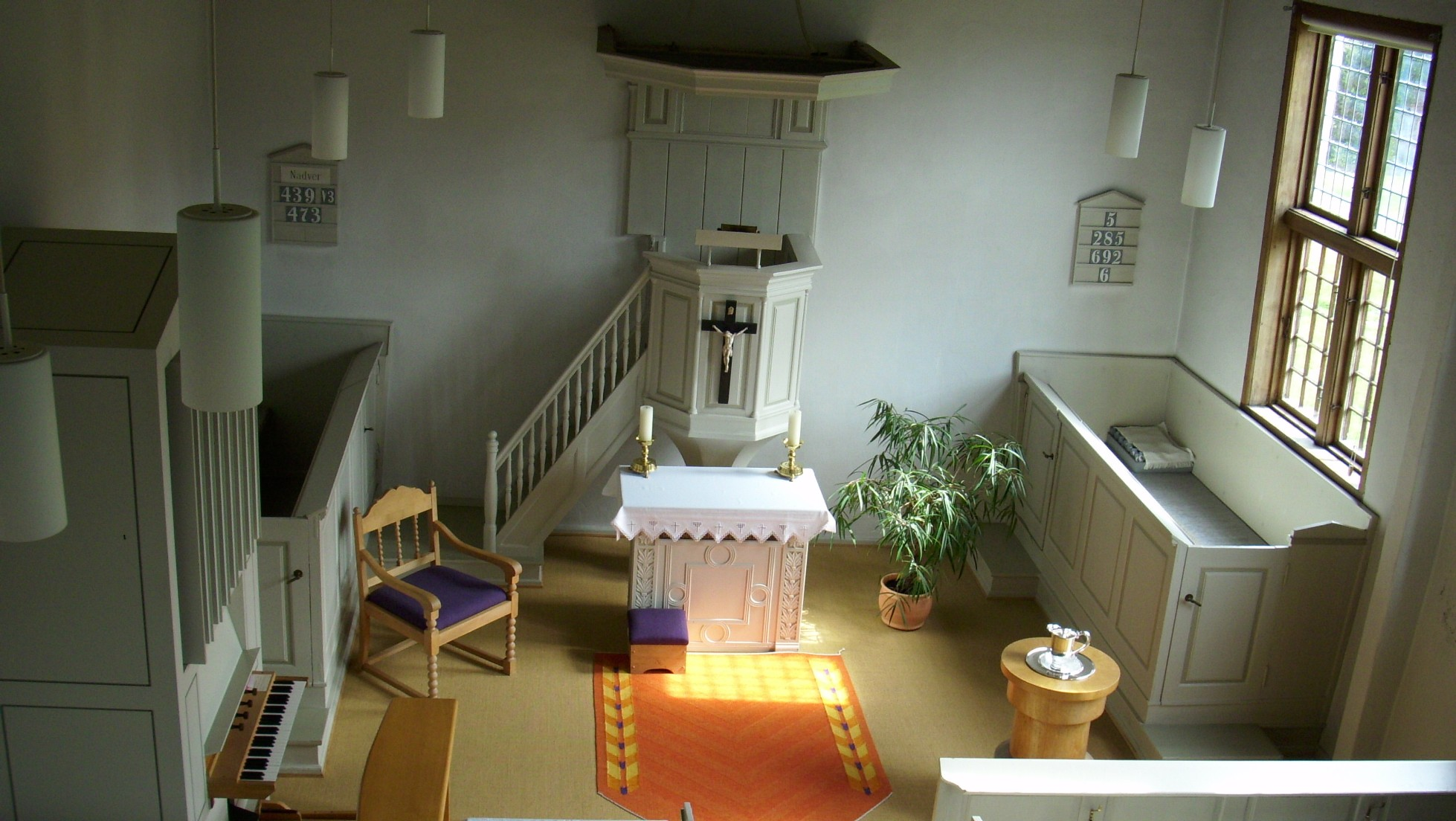 Mennonite Church of Friedrichstadt, Schleswig-Holstein, Germany